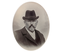 Johan Erik Cronvall, the founder of Oy Cronvall Ab (1878) import and technical trade